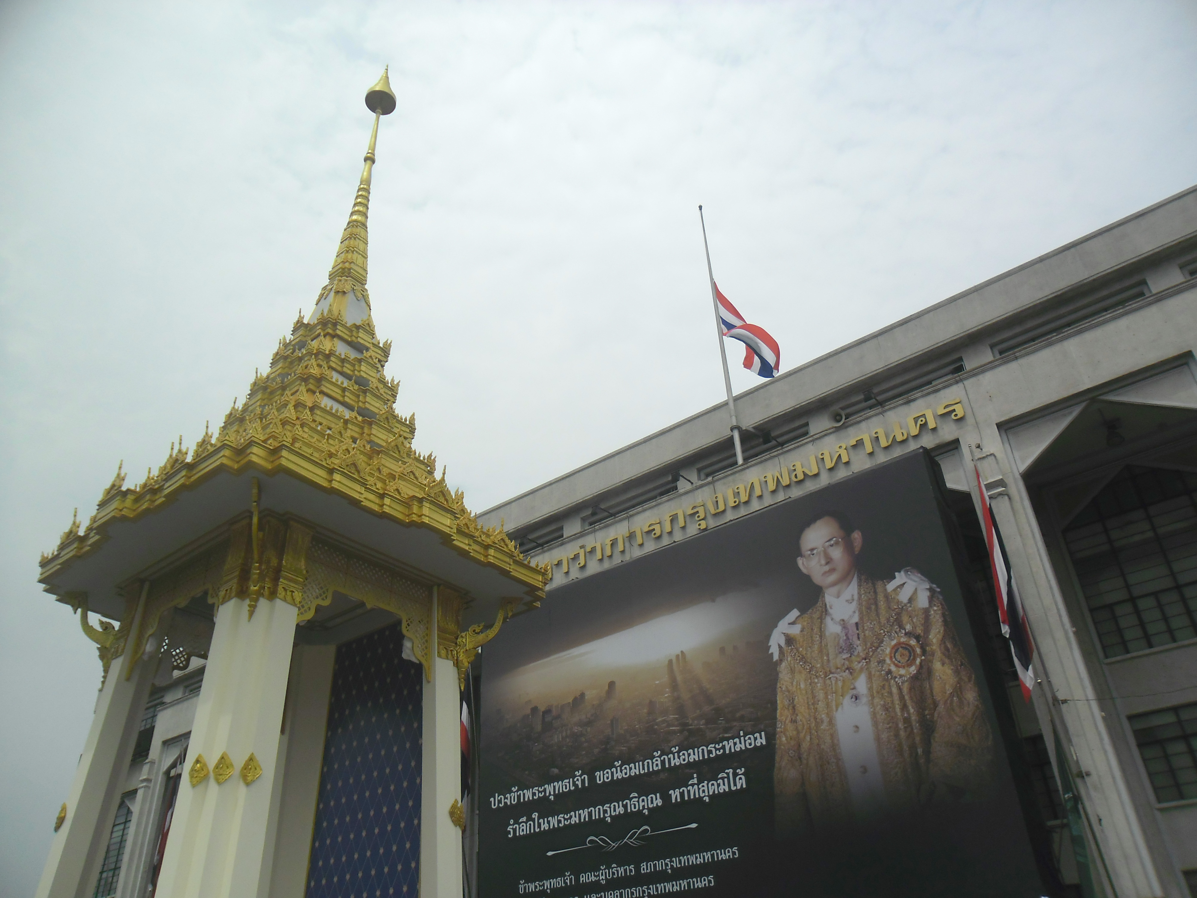 Royal crematorium replica site for the royal cremation ceremony of HM the late King of Thailand at Bangkok Metropolitan Administration City Hall.